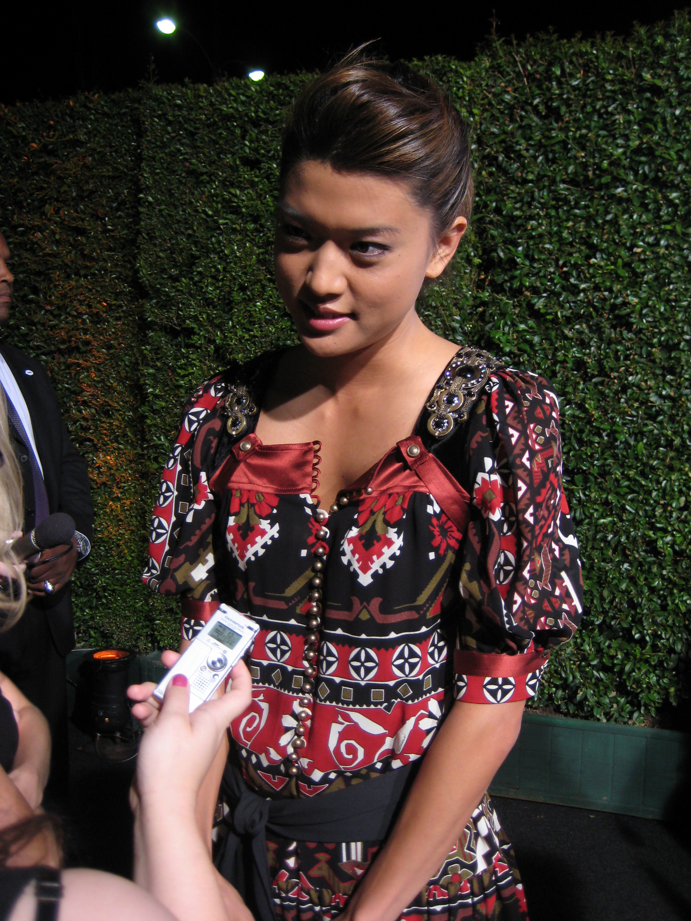 Entertainment Weekly/Revlon Party, Beverly Hills Post Office, Sept. 20, 2008